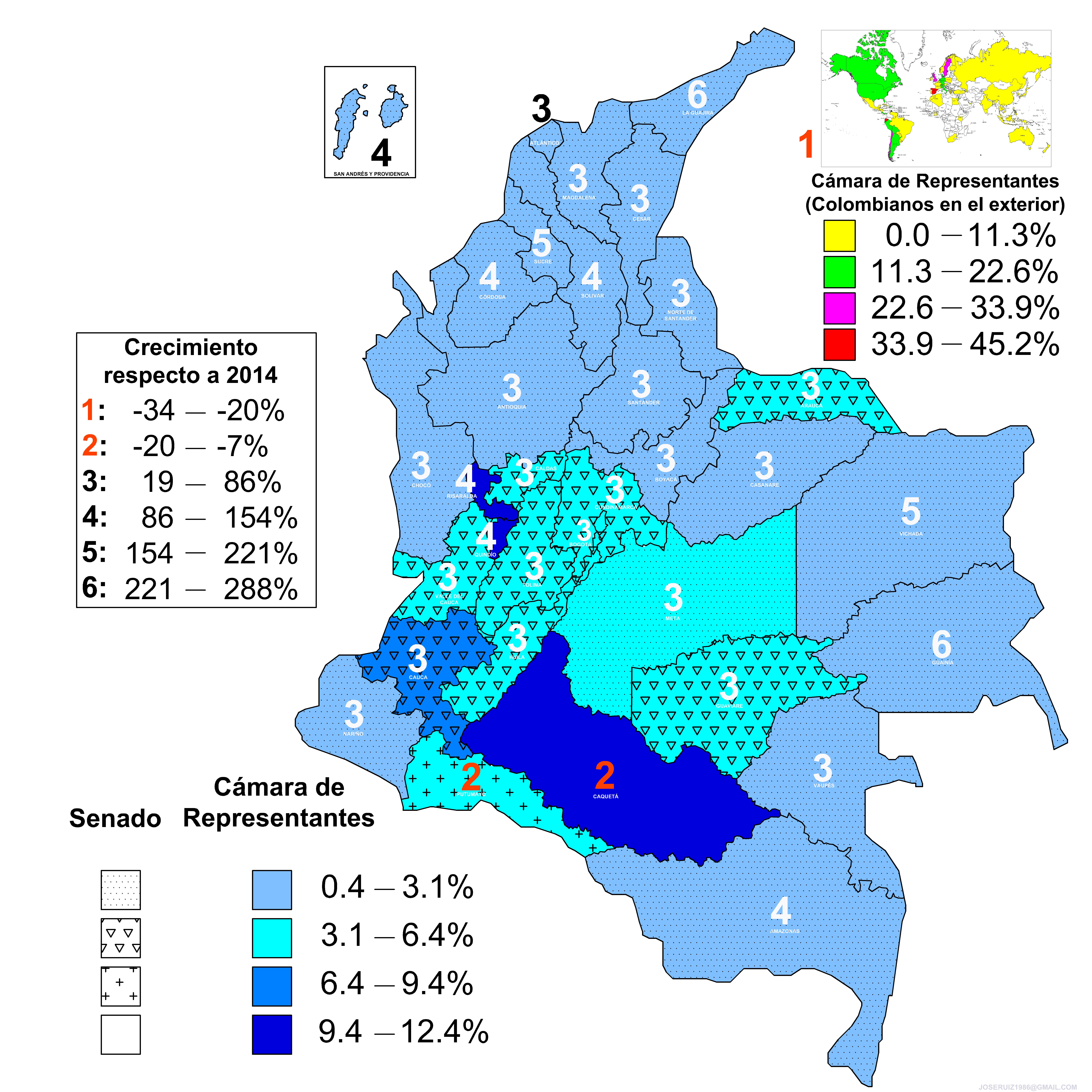 This map summarizes the preliminary results obtained by the MIRA Party in the 2018 parliamentary elections in Colombia. This is the map version for Wikipedia in Spanish. This file replaces 2018 Parliamentary elections results of the MIRA Party.png.